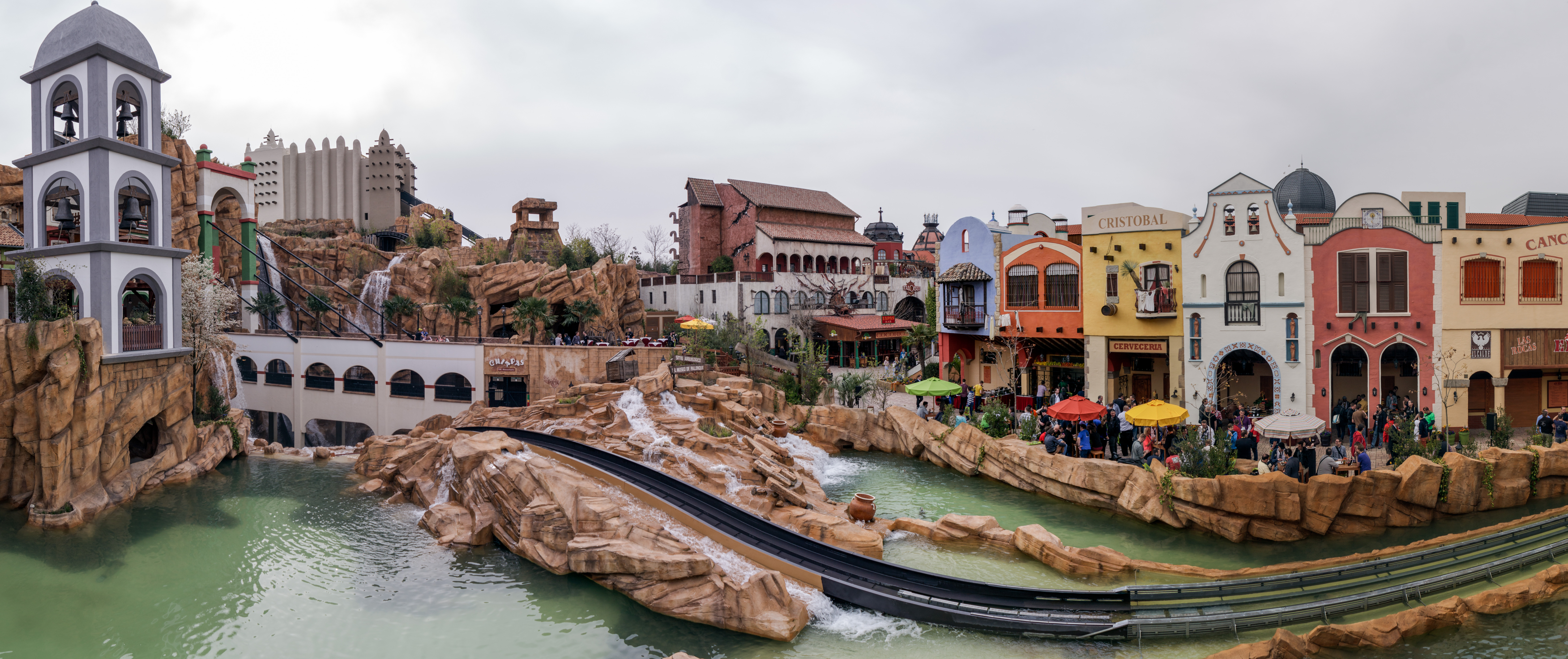 Panoramic view form southeast of Chiapas – Die Wasserbahn, flume ride at Phantasialand, Brühl, Germany (Picture composed from multiple photos)